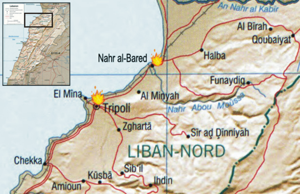 A map of the 2007 North Lebanon conflict